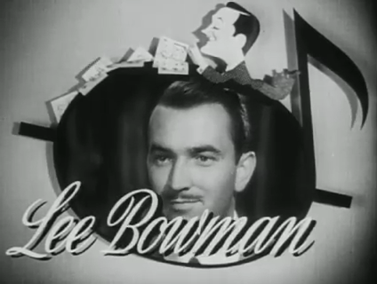 Lee Bowman in Three Hearts for Julia, by Richard Thorpe (1943)